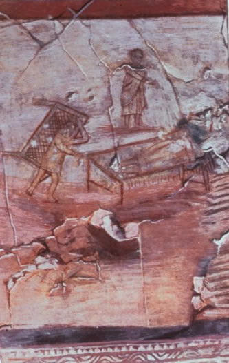 The healing of the paralytic : wall painting in the baptistry of the domus ecclesiae in Dura Europos.